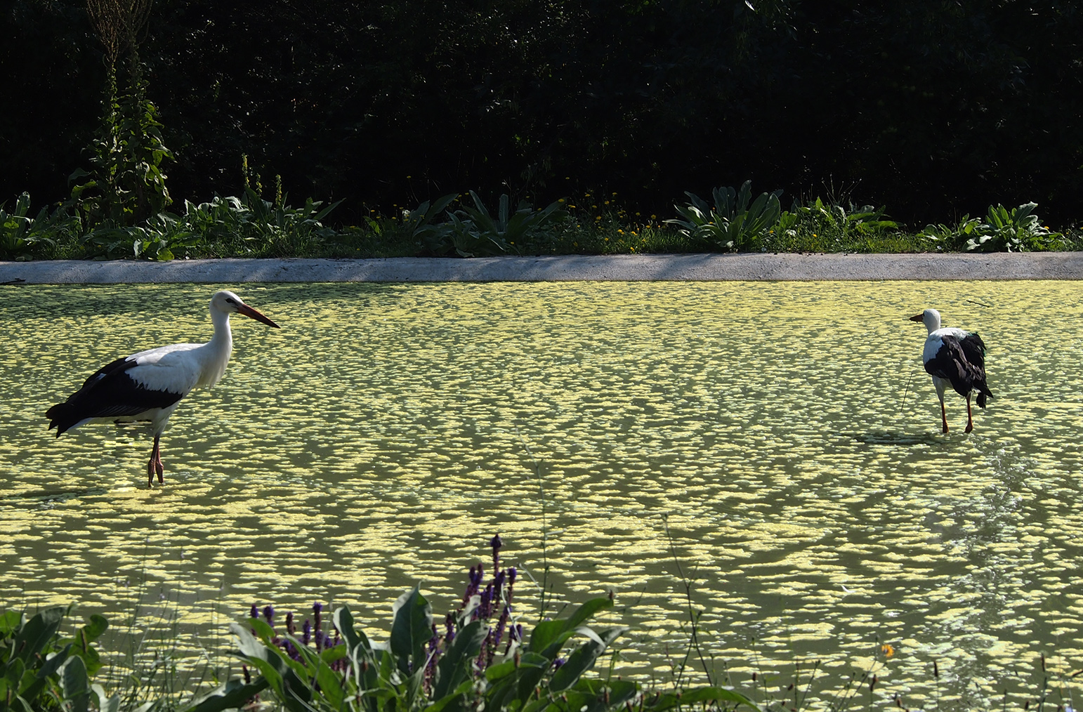 White storks in a pond in the zoo of Dobrich